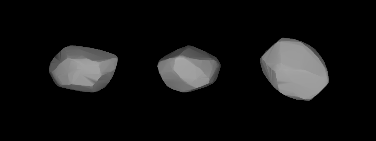 A three-dimensional model of 534 Nassovia that was computed using light curve inversion techniques.